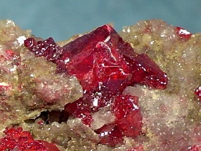 Cinnabar Locality: Almadén, Almadén District, Ciudad Real, Castile-La Mancha, Spain (Locality at ) Size: 4.0 x 1.5 x 1.5 cm. Gemmy and lustrous, deep cherry-red cinnabar crystals are aesthetically scattered on matrix on this excellent old-timer from the famous mercury mines of Almaden, Spain. The well-placed, complex crystal cluster is 1.0 cm wide. Ex. John Ydren Collection.